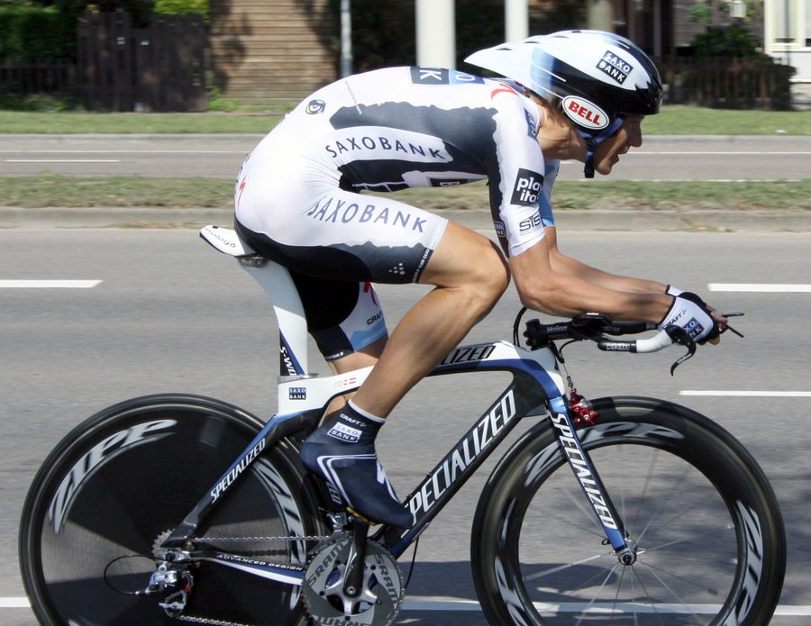 Frank Høj at the 2009 Eneco Tour prologue